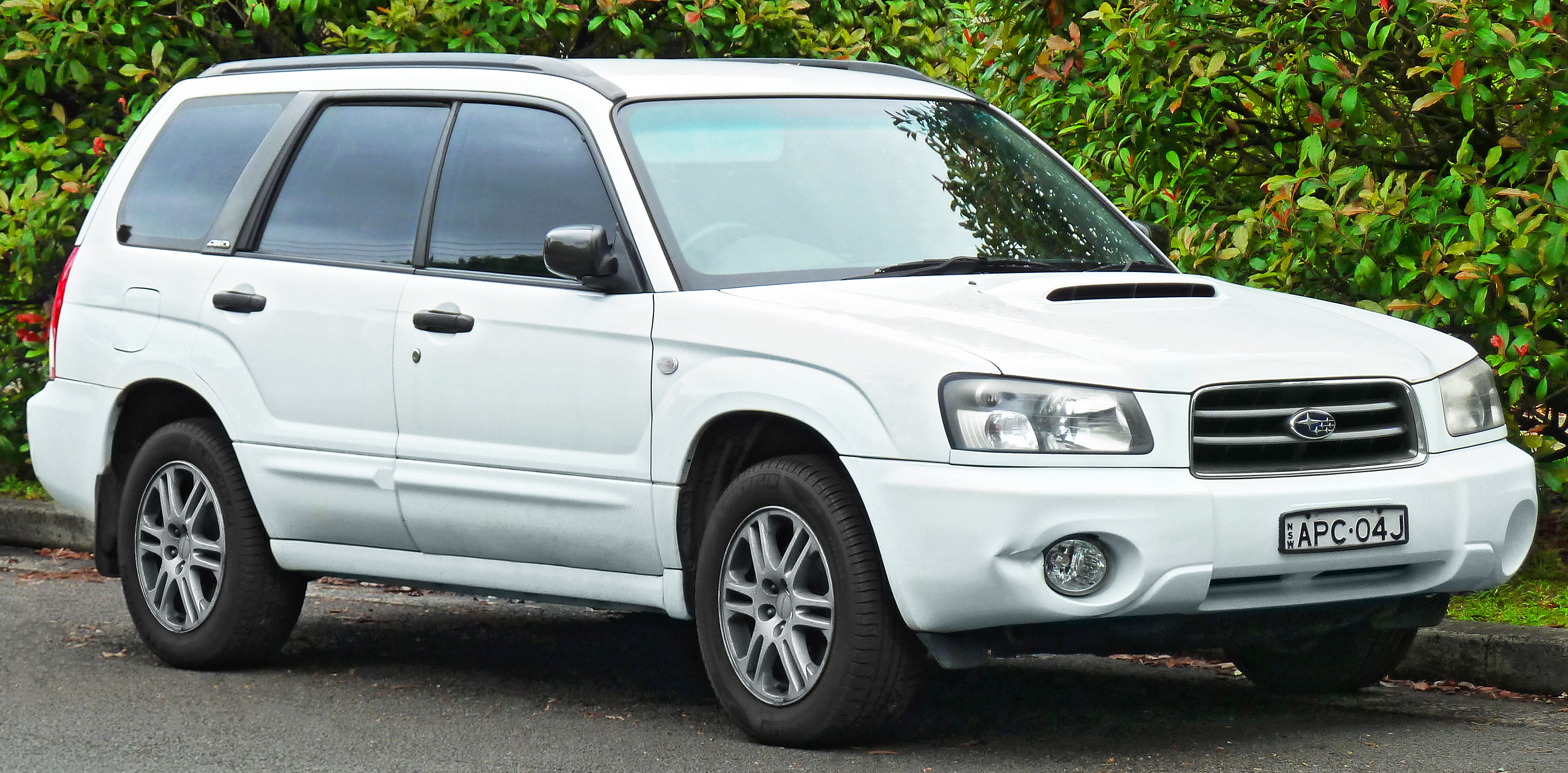 2002–2005 Subaru Forester XT wagon. Photographed in Lindfield, New South Wales, Australia.